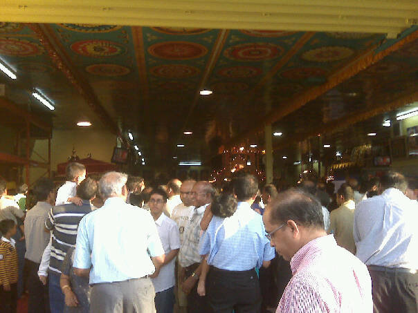 Entrance to the Varasidhi Vinayaka Temple in Scarborough, Ontario